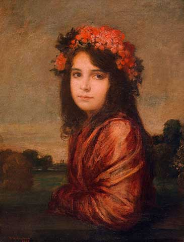 Eleonora Duse